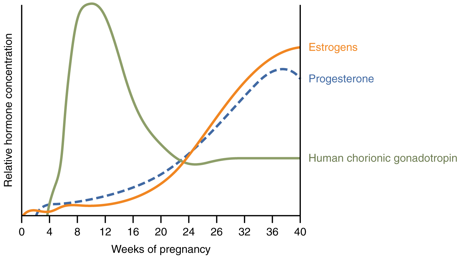 Illustration from Anatomy & Physiology, Connexions Web site. Jun 19, 2013.